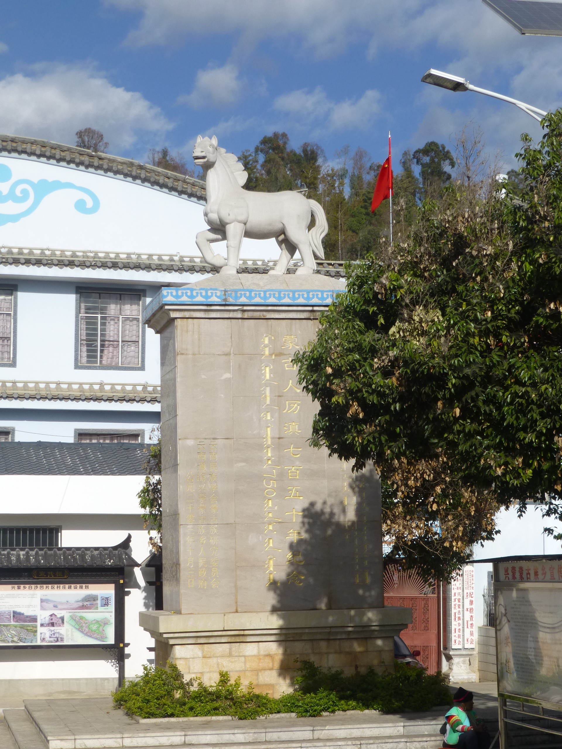 Xingmeng Mongol Ethnic Township, Tonghai County, Yunnnan.